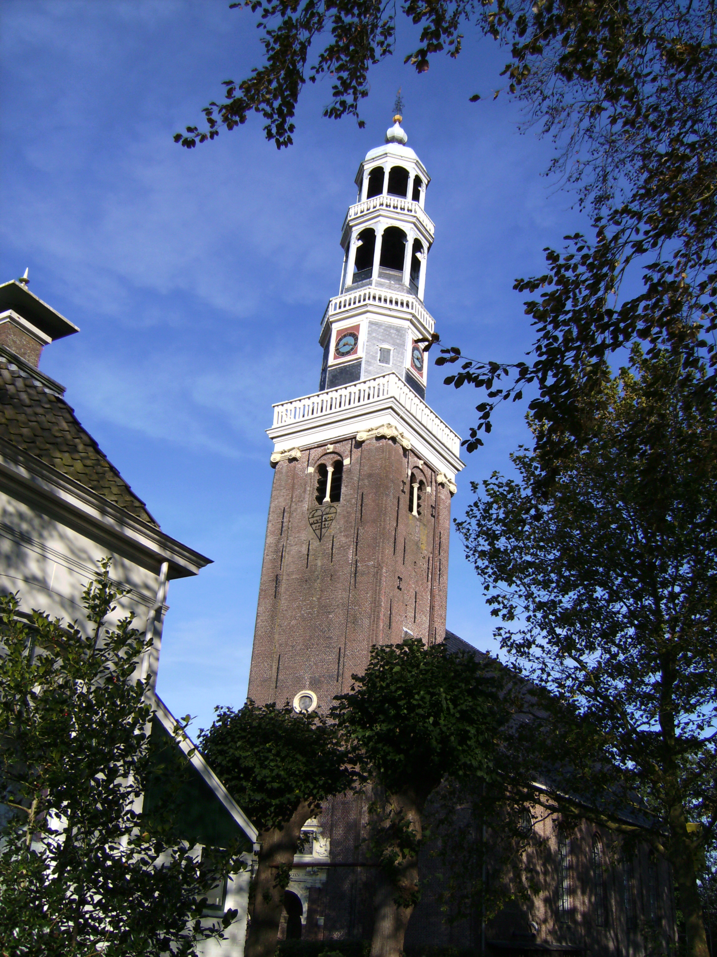 Oldeborn, church